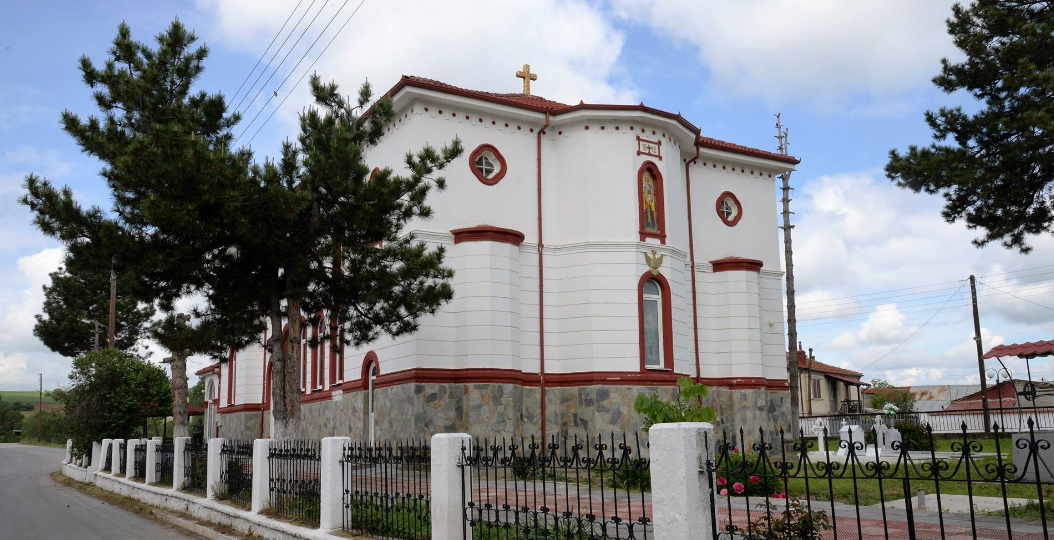 Eastern facade of the church in papayiannis florina